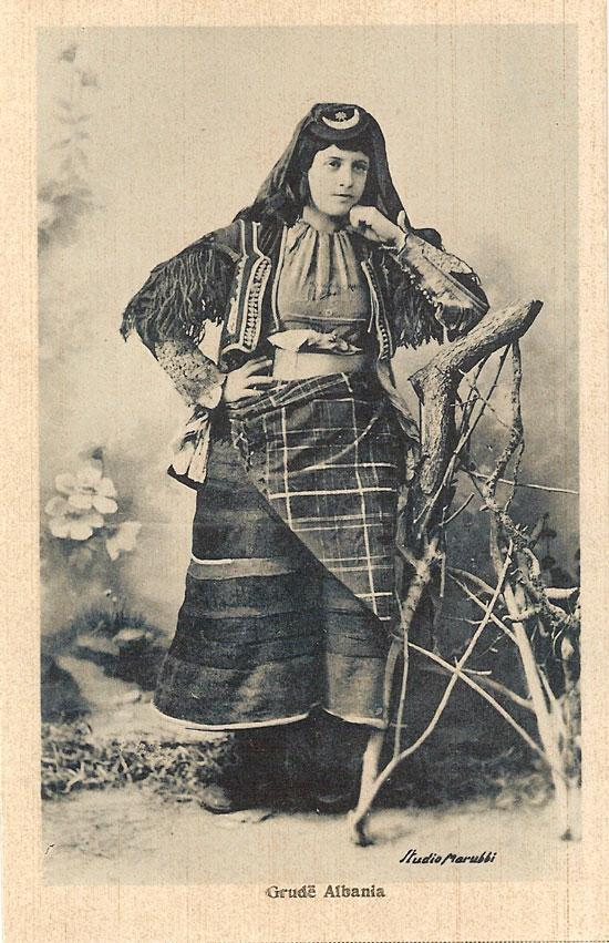 Photograph of an Albanian woman from Grudë by Pjetër Marubi.